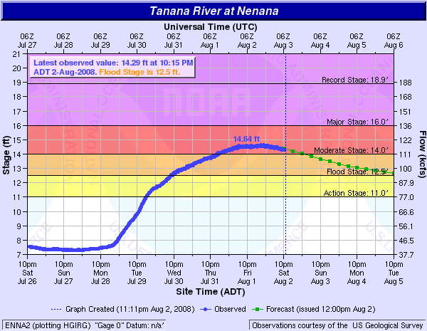 Graph of the water level of the 2008 Tanana Valley Flood at Nenana, Alaska.